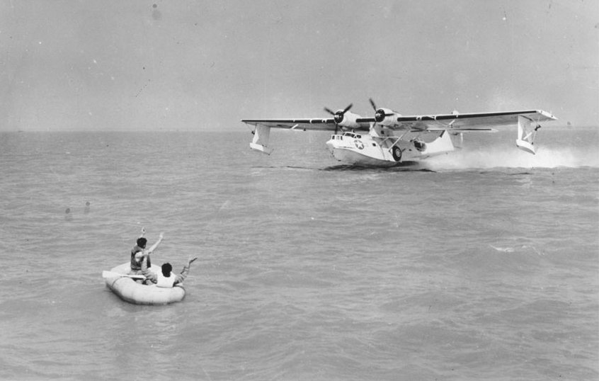 A USAAF Consolidated OA-10A Catalina (USAAF designation of the PBY) landing off Keesler Field , Mississippi (today Keesler Air Force Base), during a training exercise with U.S. Marine Corps rescue boat crews in 1944.